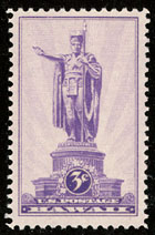 US stamp of King Kamehameha I of Hawaii